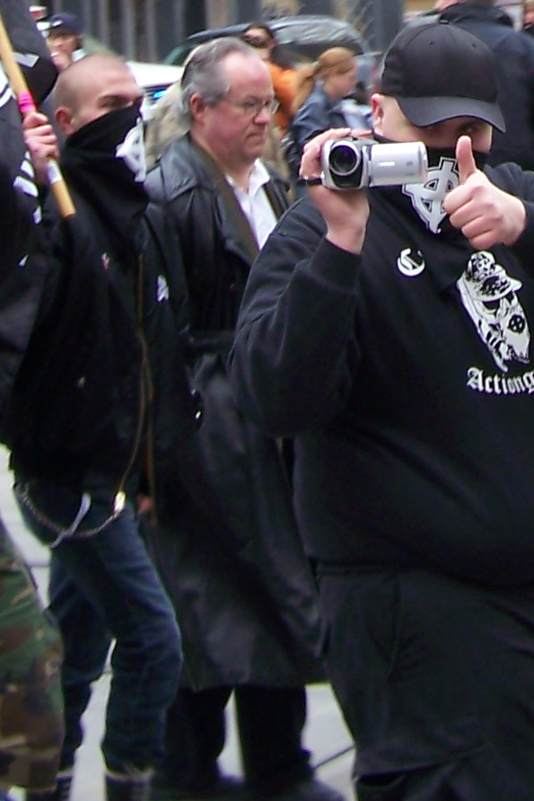 The Calgary based neo-Nazi group Aryan Guard and its supporters are seen here marching down 7th Avenue SW (near 6 Street) in downtown Calgary (where the C-Train tracks run along). The Aryan Guard members were generally (not always) wearing black jackets/coats, with face coverings with a version of the "Celtic Cross" on them. They were surrounded by anti-racist protesters, who are in background, across the street. The person in the middle, without a mask, wearing glasses, and camera-left to the person holding the camcorder is Paul Fromm, a prominent Canadian white supremacist. This is a cropped version of File:Aryan Guard 2009-03-21.jpg designed to focus on Paul Fromm.